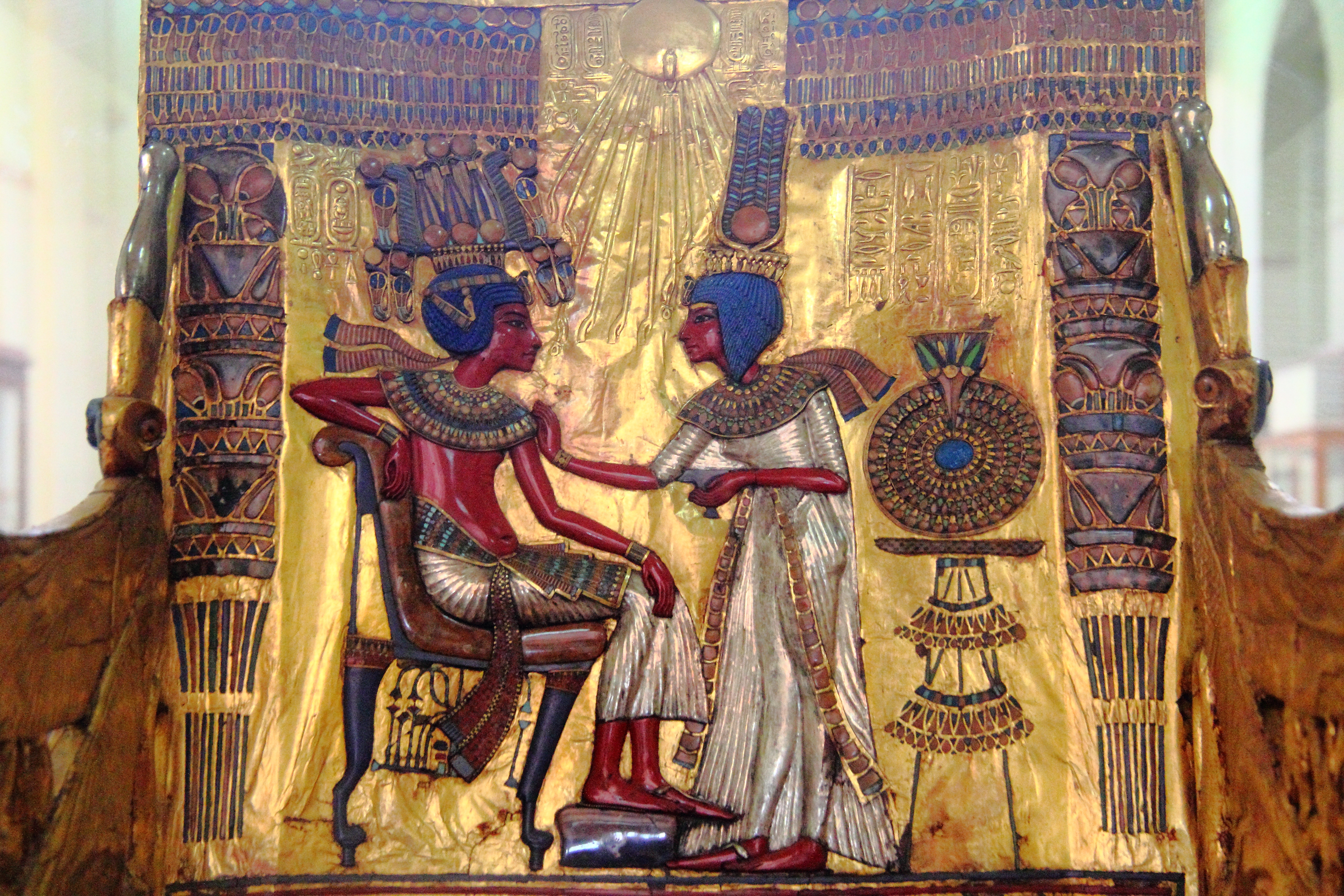 Egyptian Museum, Cairo: Material from the tomb treasure of king Tutankhamun, 18th dynasty, New Kingdom of Egypt